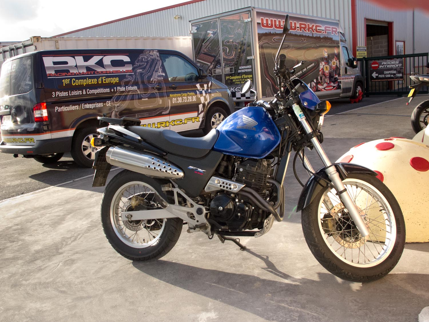 motorbike FX 650 Honda 1999